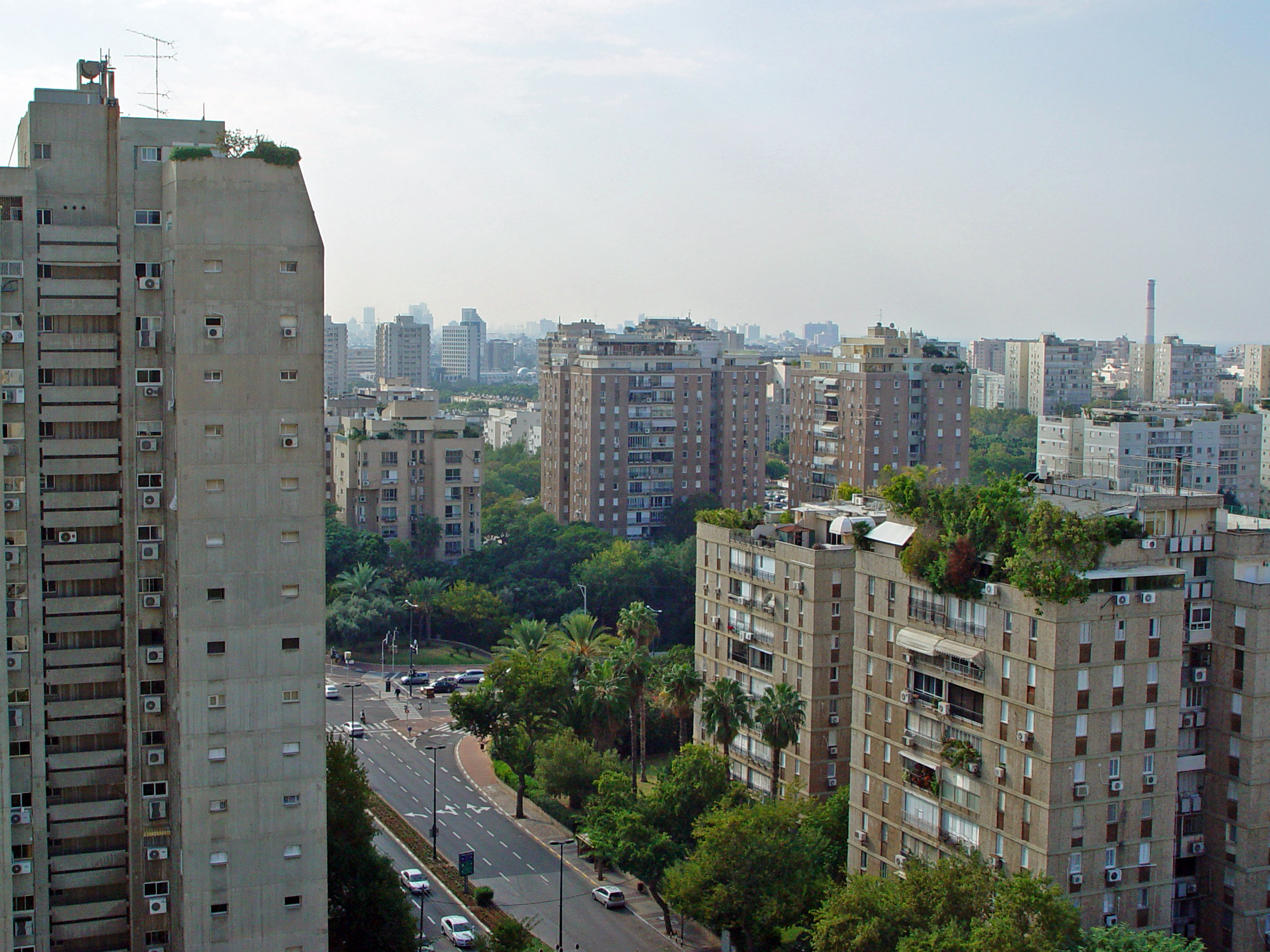 Ramat Aviv Gimmel neighbourhood (Tel Aviv). View towards South-West.